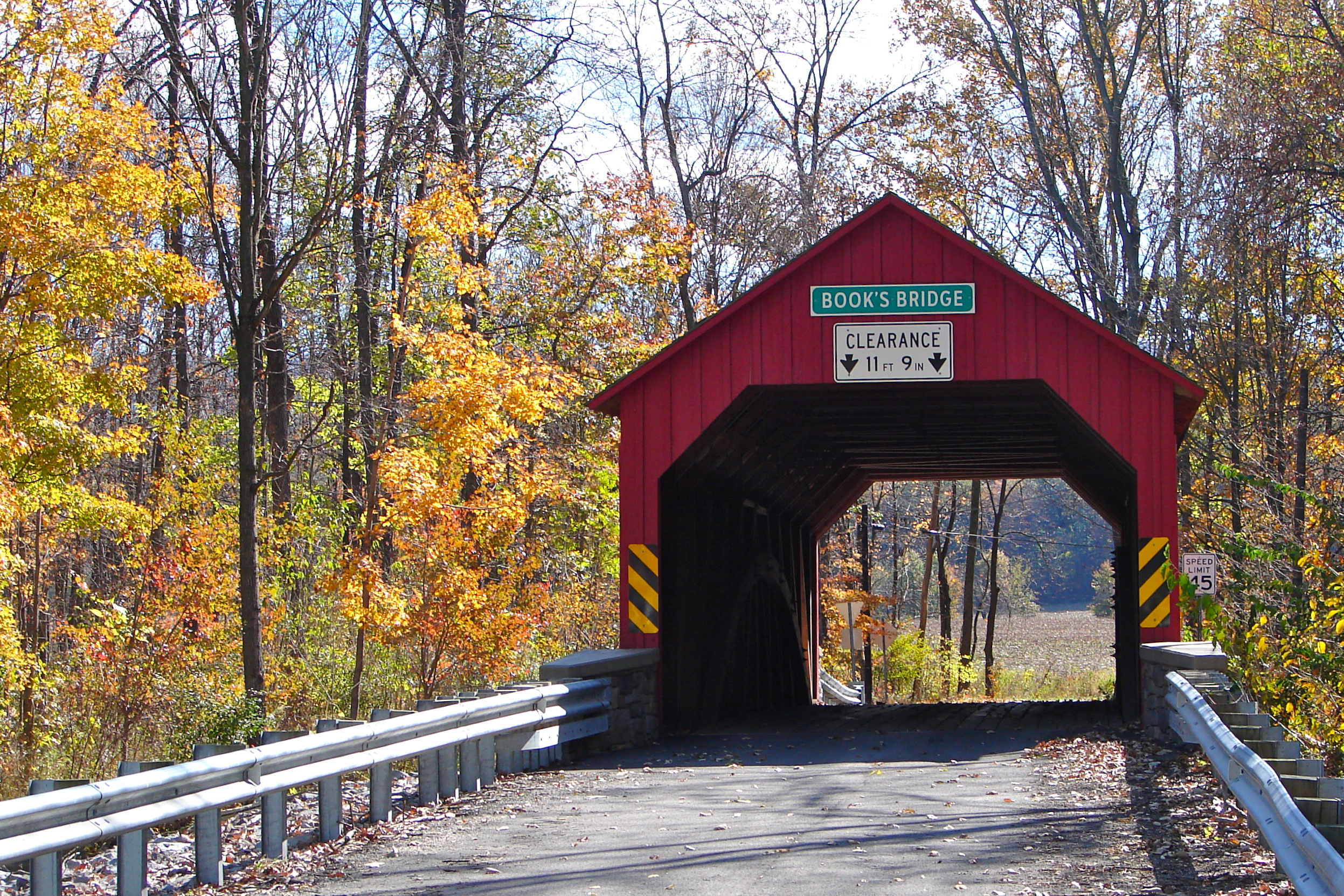 Book's Covered Bridge on the NRHP since August 25, 1980. Southwest of Blain on Legislative Route 50004 (3 Springs Road), Jackson Township, Perry County, Pennsylvania. One of 12 Covered Bridges in Perry County on the NRHP.